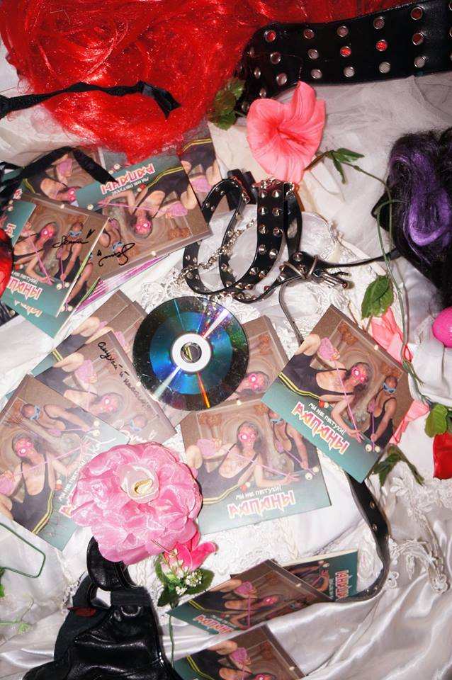 Перший CD гурту "Рапани" "Мы не Петухи!"